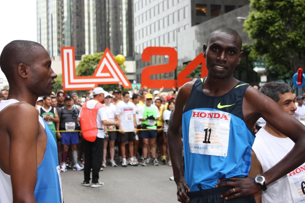 Benjamin Limo #11 - 6th place overall -- Los Angeles Marathon - May 25, 2009